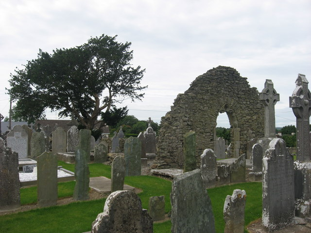 Church ruins at Tullyallen, Co. Louth Only the east gable and wall footings survive of the late medieval parish church.